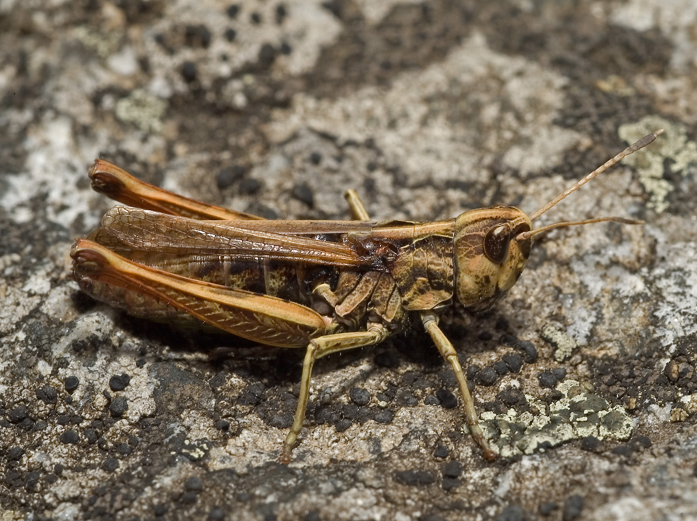 Description: Gomphocerippus rufus